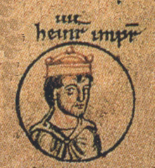 Henry IV, Holy Roman Emperor